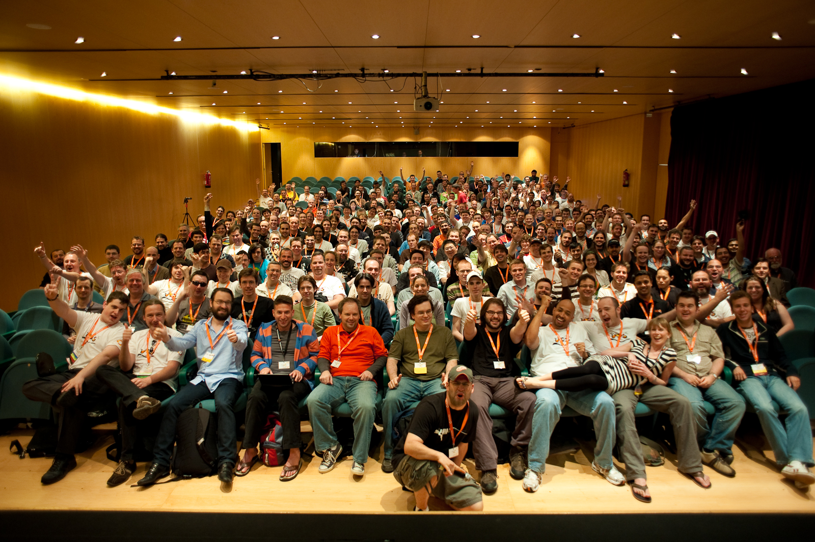 UDS Karmic Group Photo